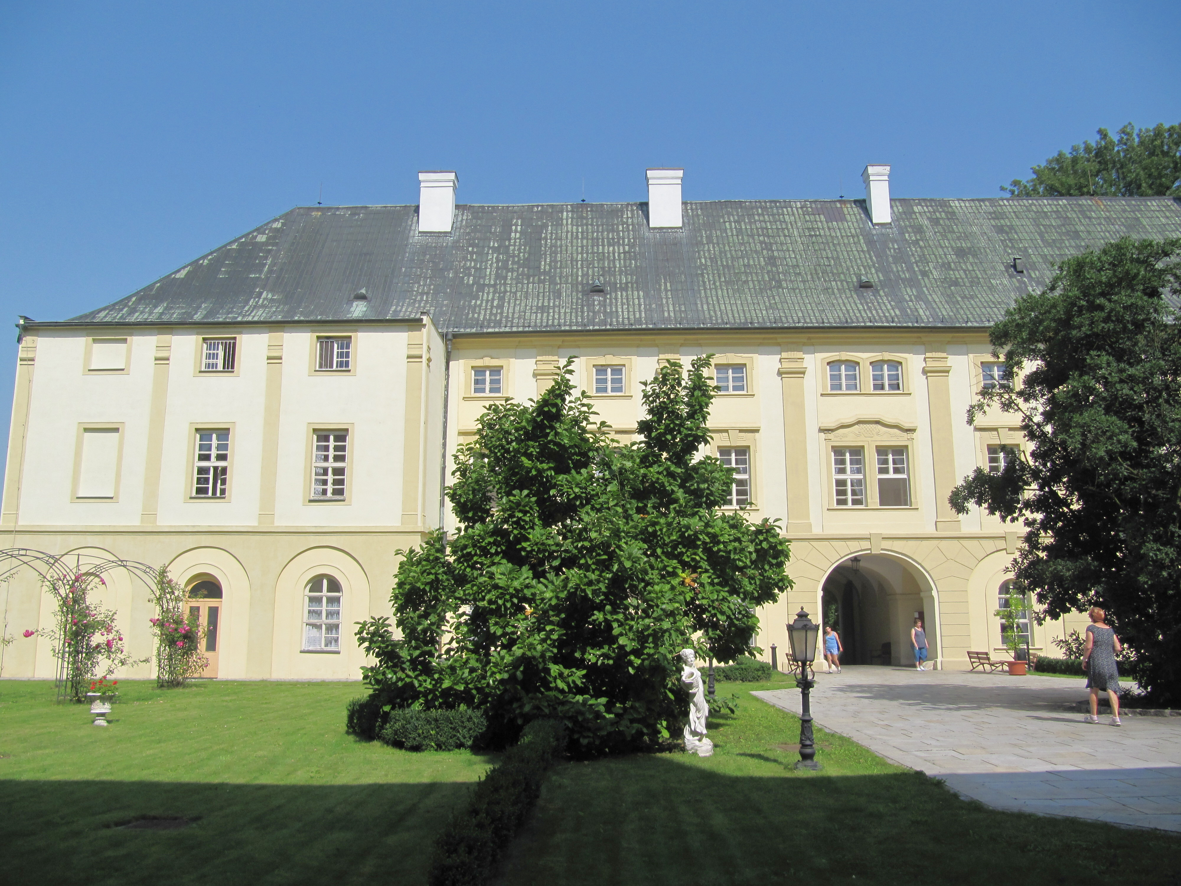 Rokytnice, Czech Republic, Přerov District. Castle, courtyard. Today retirement home This photograph was taken within the scope of the third year of the 'Czech Municipalities Photographs' grant.